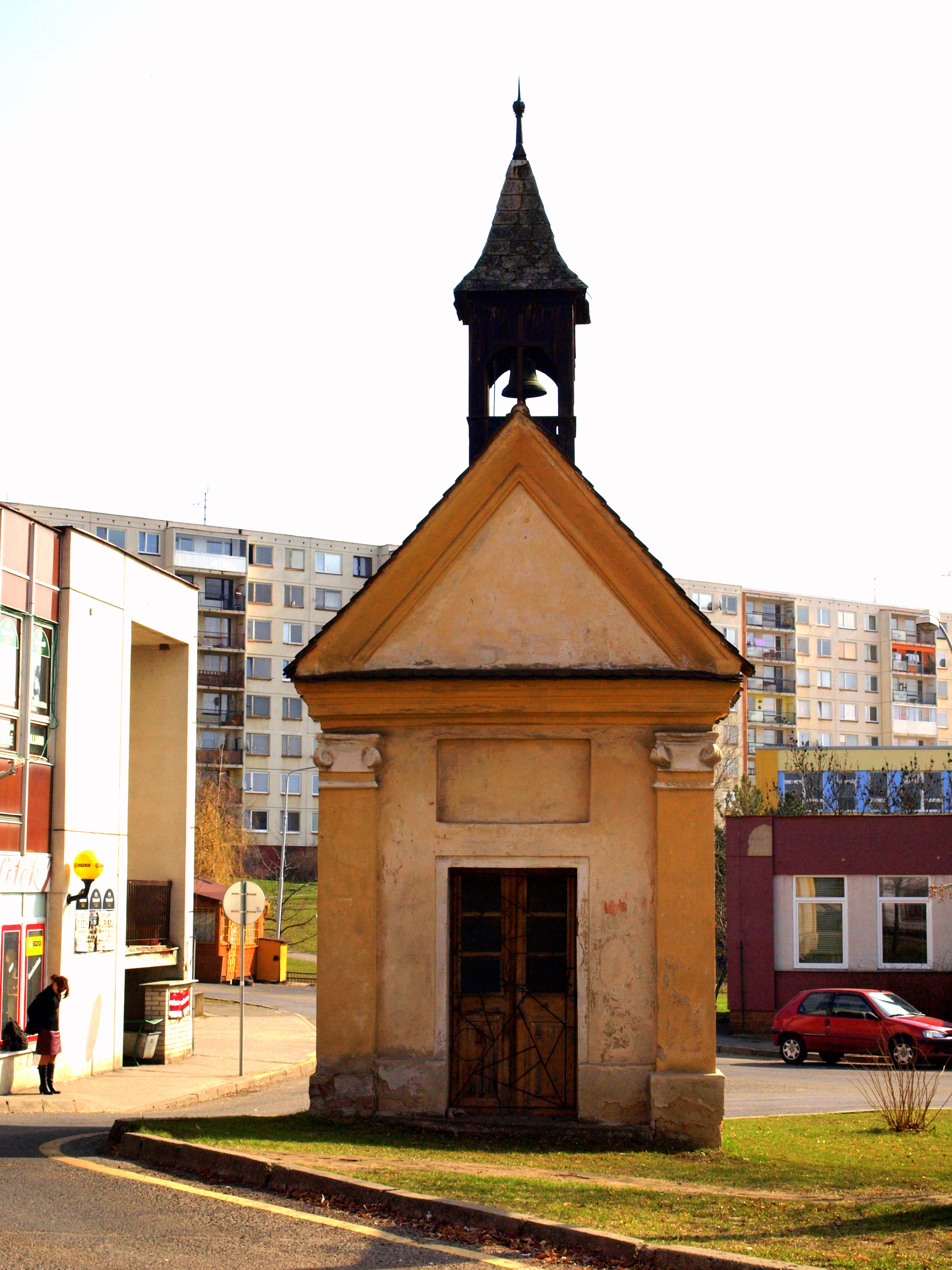 Chapel Pokratice